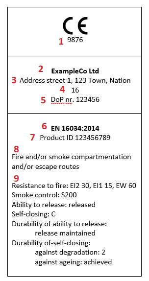 CE_marking_for_ fire_rated_doors